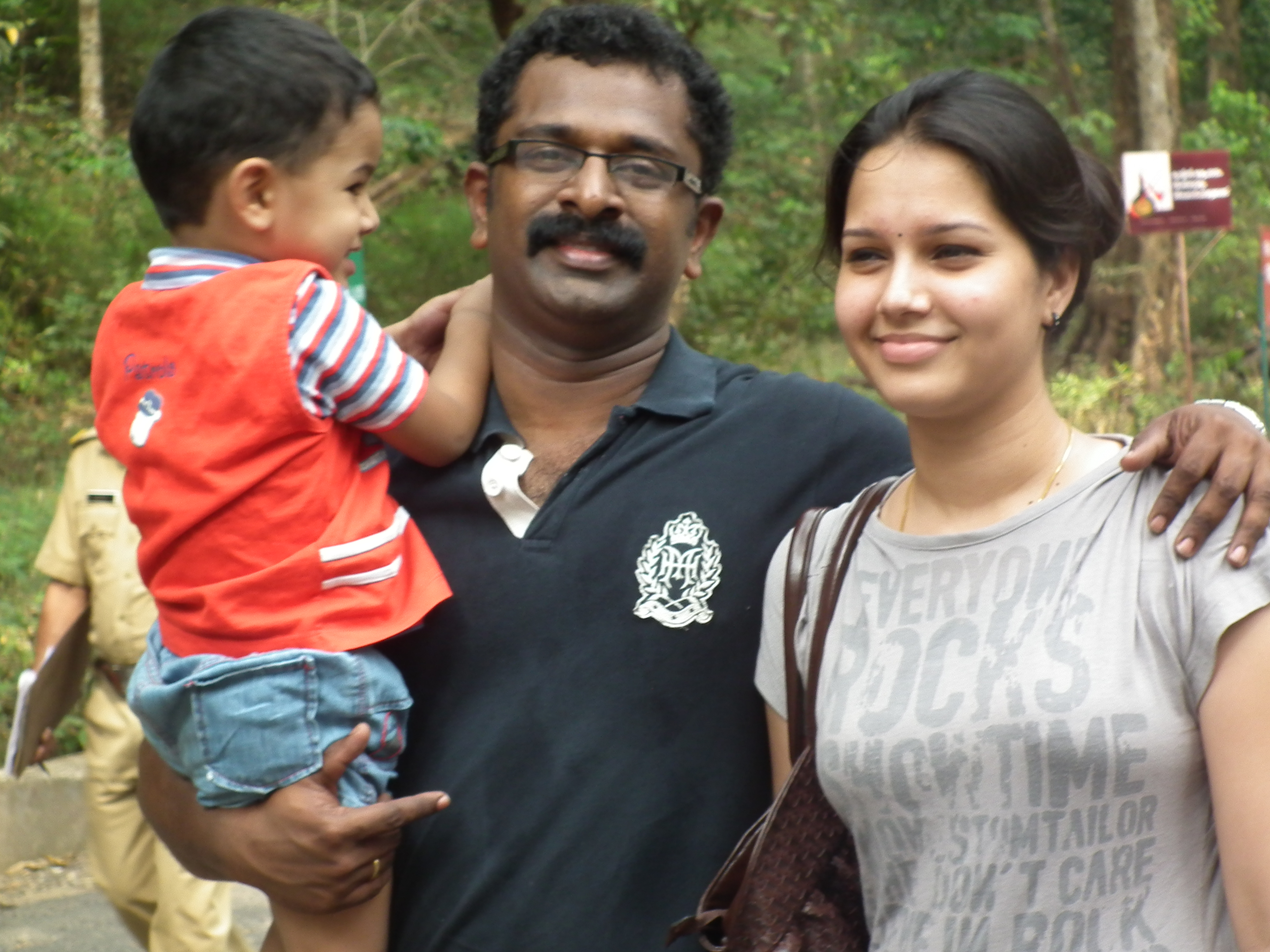 Malayalam Film actor Sreejith Ravi